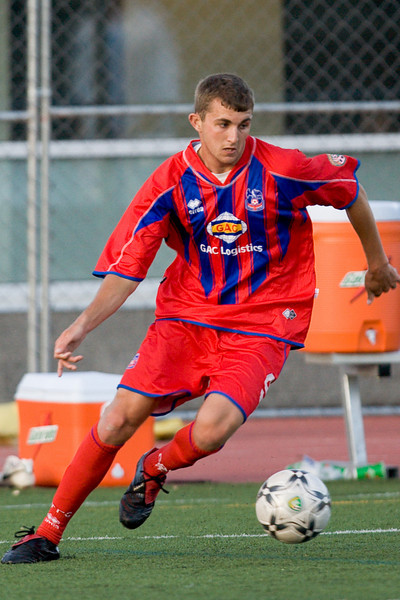 American midfielder/forward, Pat Healey, playing for Crystal Palace FC USA in a soccer match at UMBC Stadium in Catonsville MD on May 10 2008 against the Wilmington Hammerheads in the United Soccer Leagues 2nd Division.